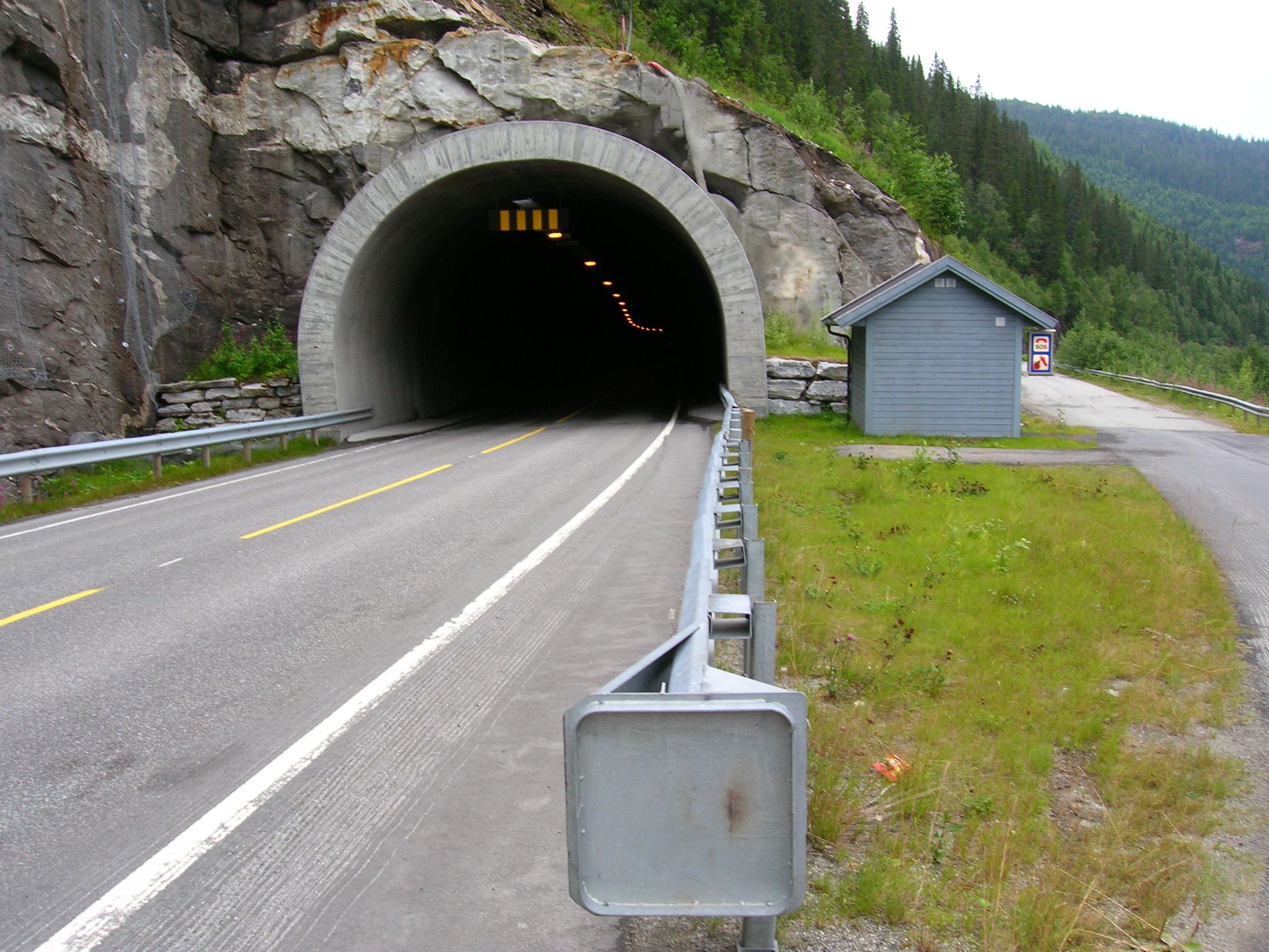 The tunnel of Illhøllia, seen from south. Rana municipality, county of Nordland, Norway, Photo 6 August, 2007 with a Nikon Coolpix 5600 5,1 Megapixel camera.